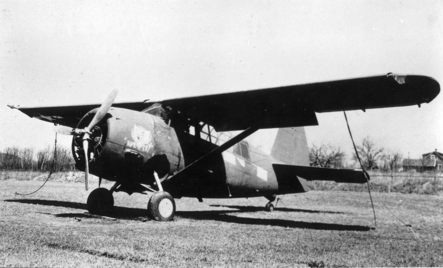 Curtiss O-52 "Owl" observation aircraft.